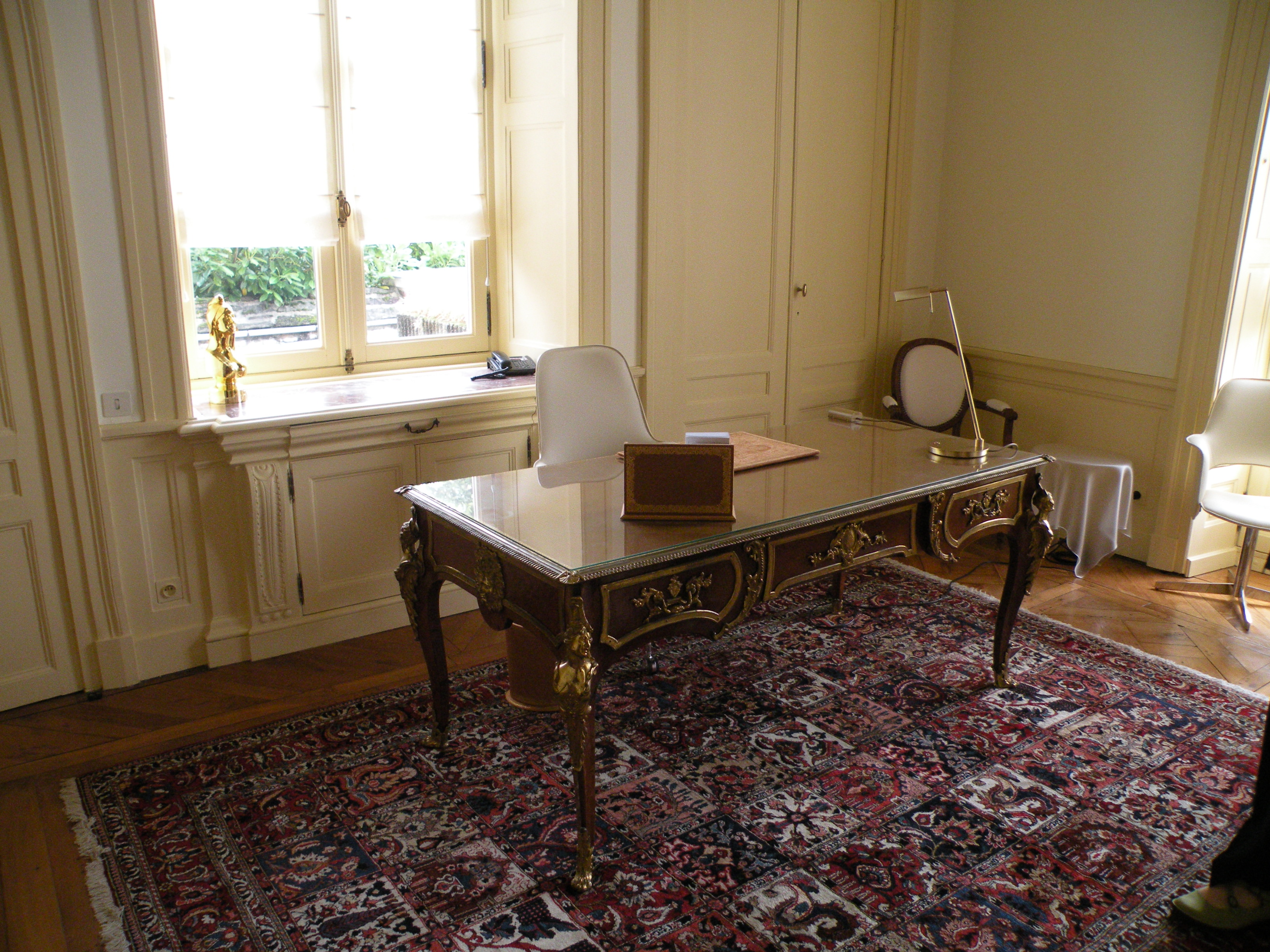 Writing table (desk) of Bretagne Regional Council’s president in the Hôtel de Courcy, Rennes.